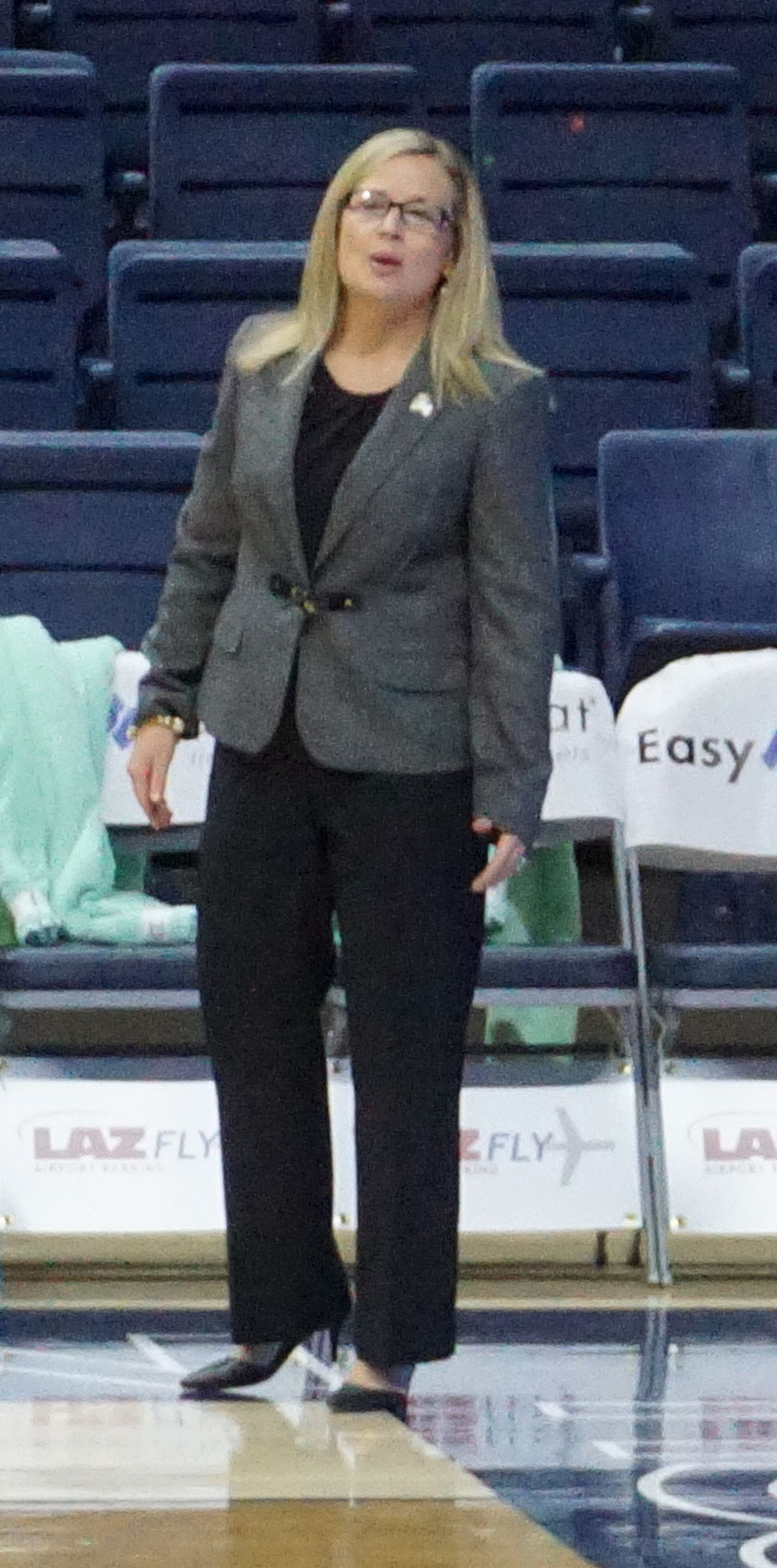 Heather Macy, head coach of East Carolina women's basketball team, taken at ECU vs UConn on 6 February 2016